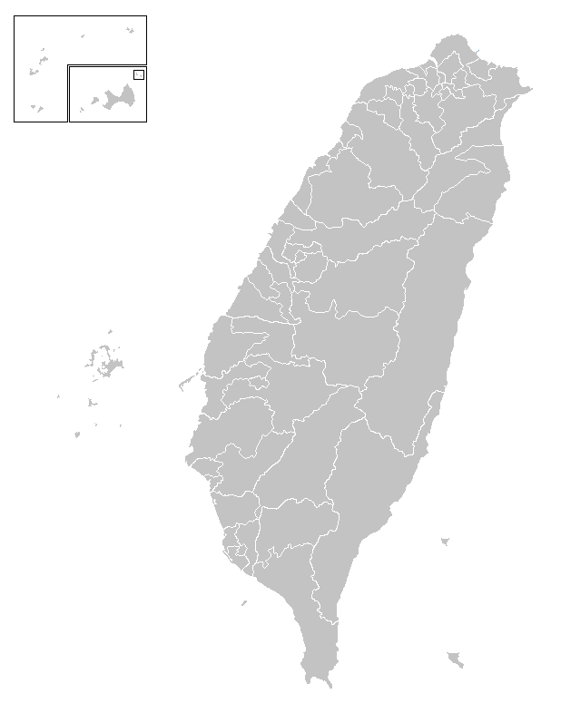 Consituencies for the cancelled Taiwanese national assembly election of 2000